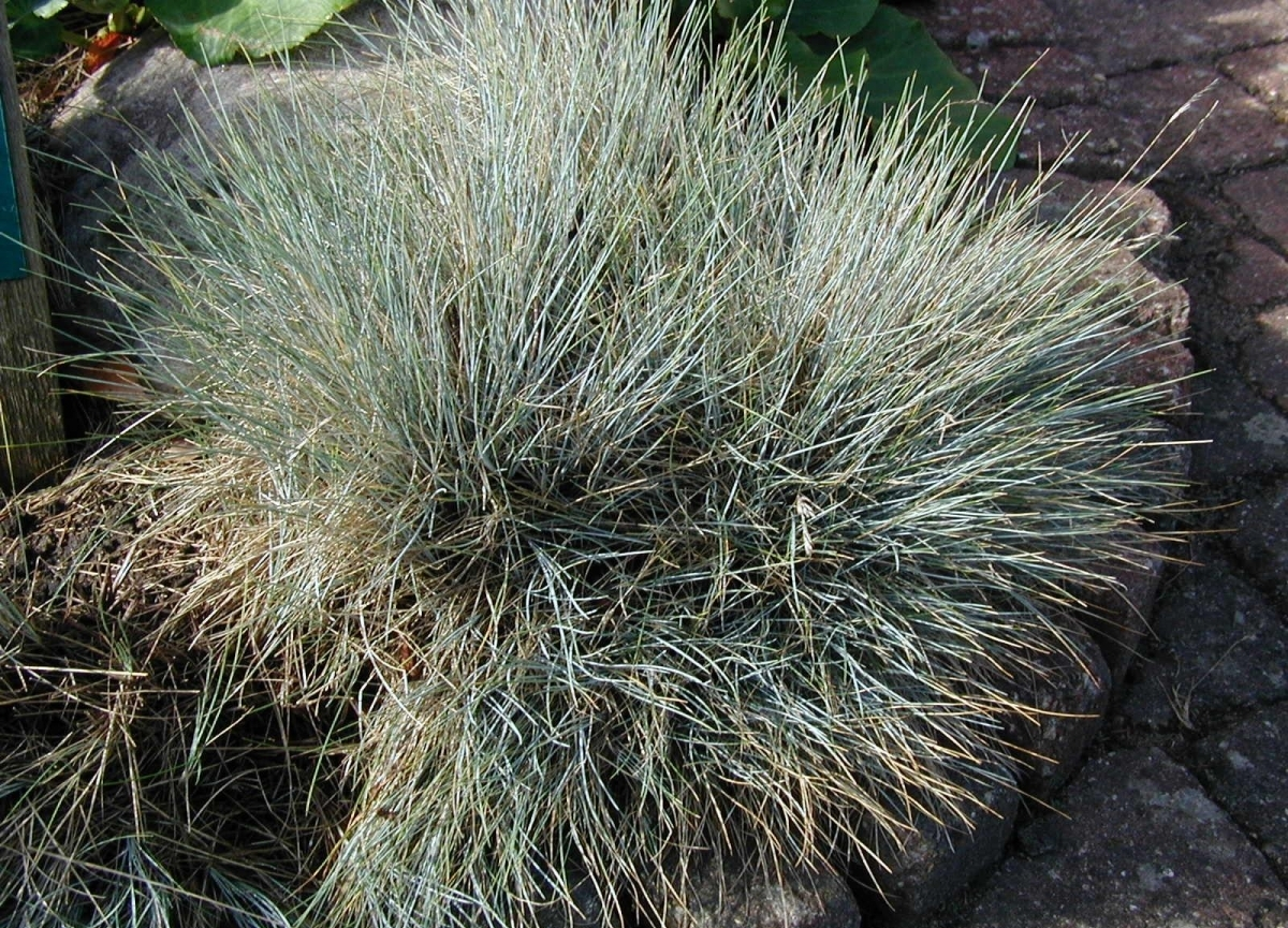 Festuca amethystina: Habit Photo: Sten Porse